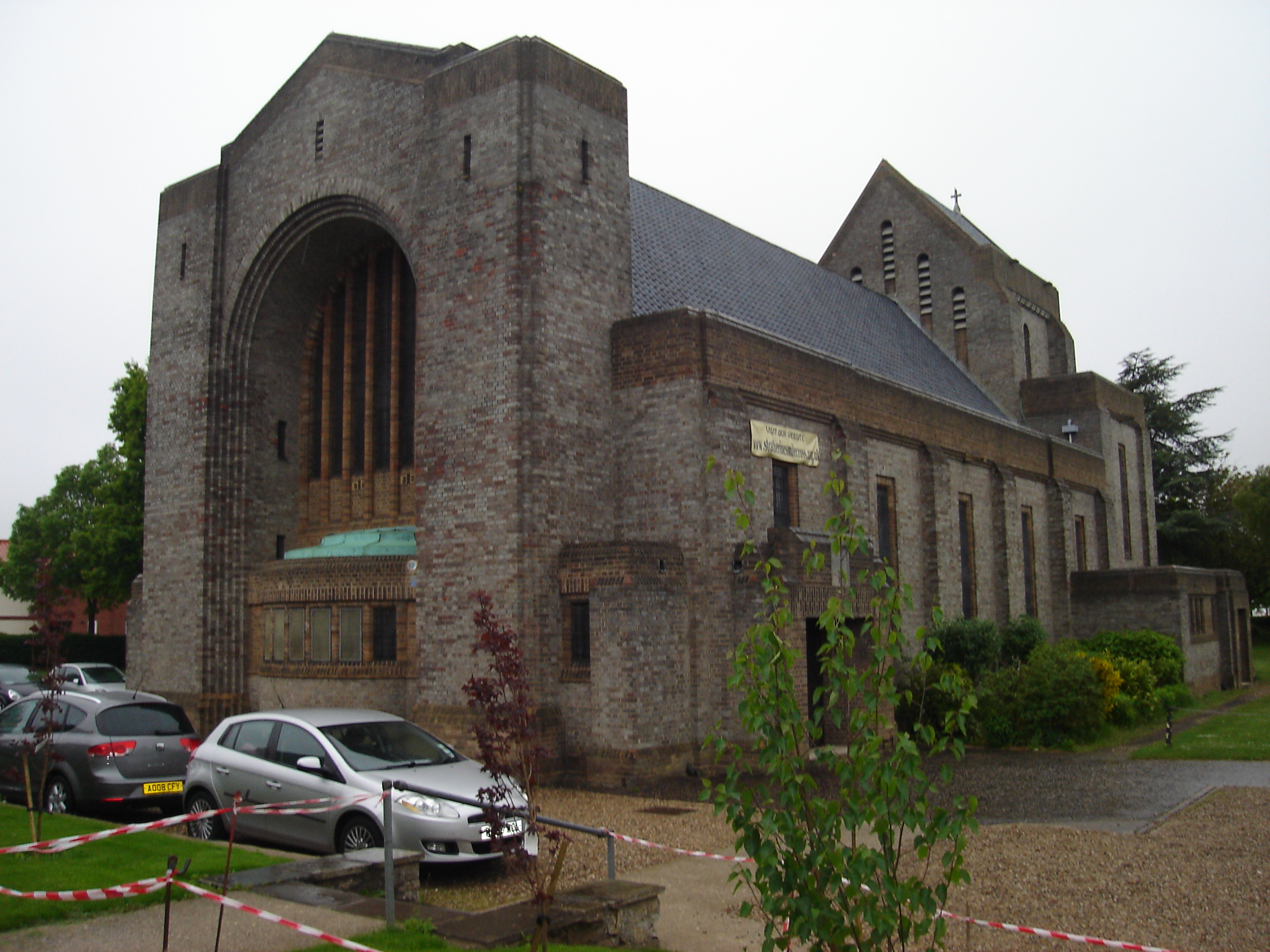 Picture of St Catherine's Church, Mile Cross